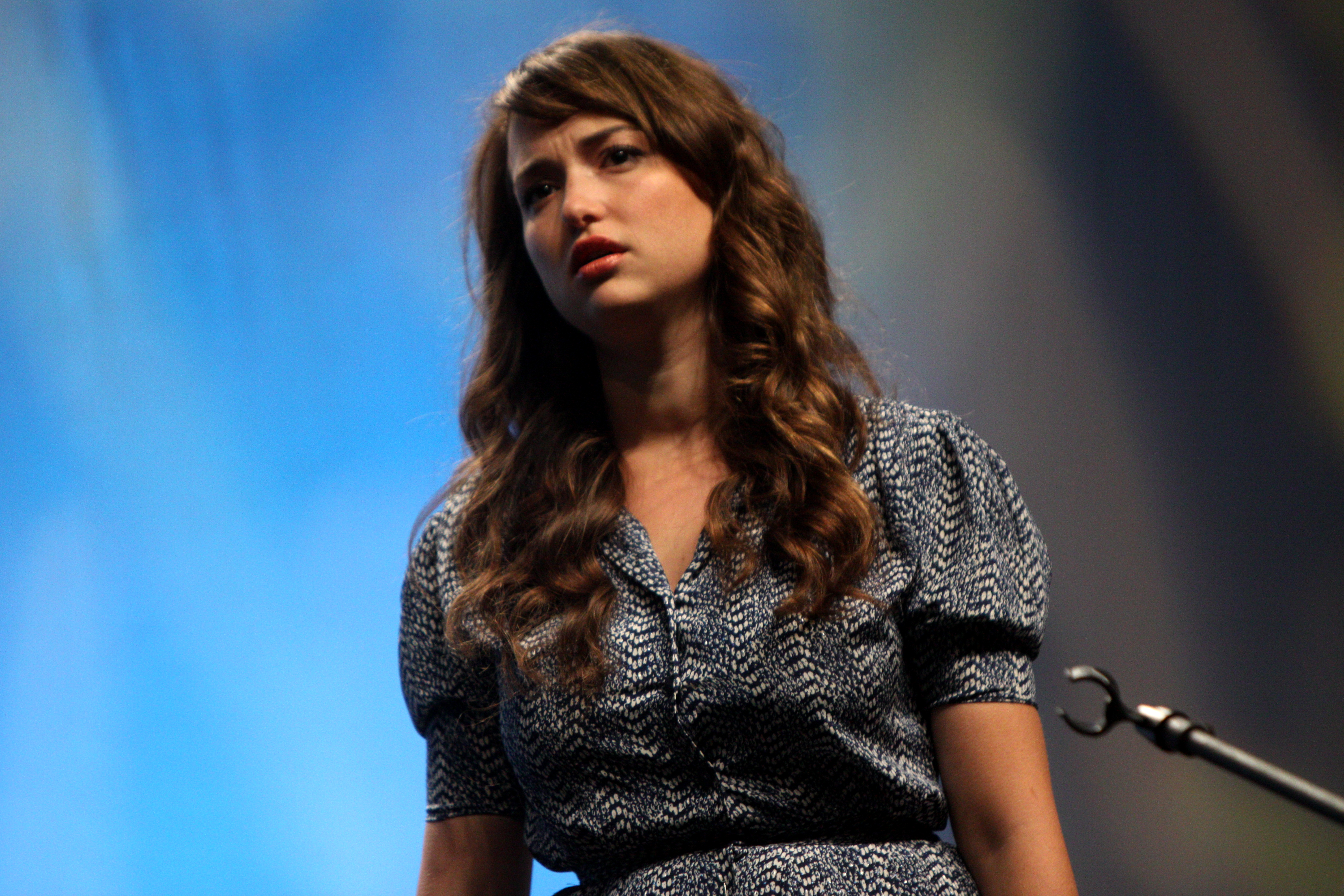 Actress Milana Vayntrub speaking at VidCon 2012 at the Anaheim Convention Center, Anaheim, California, June 30, 2012